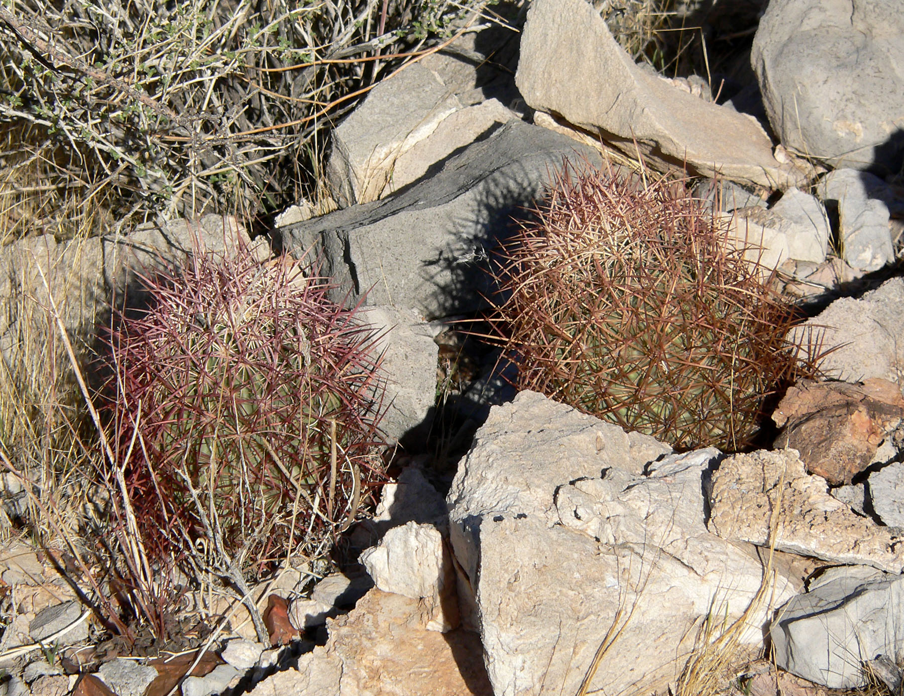 Echinomastus johnsonii on Frenchman Mountain, just east of Las Vegas, Nevada